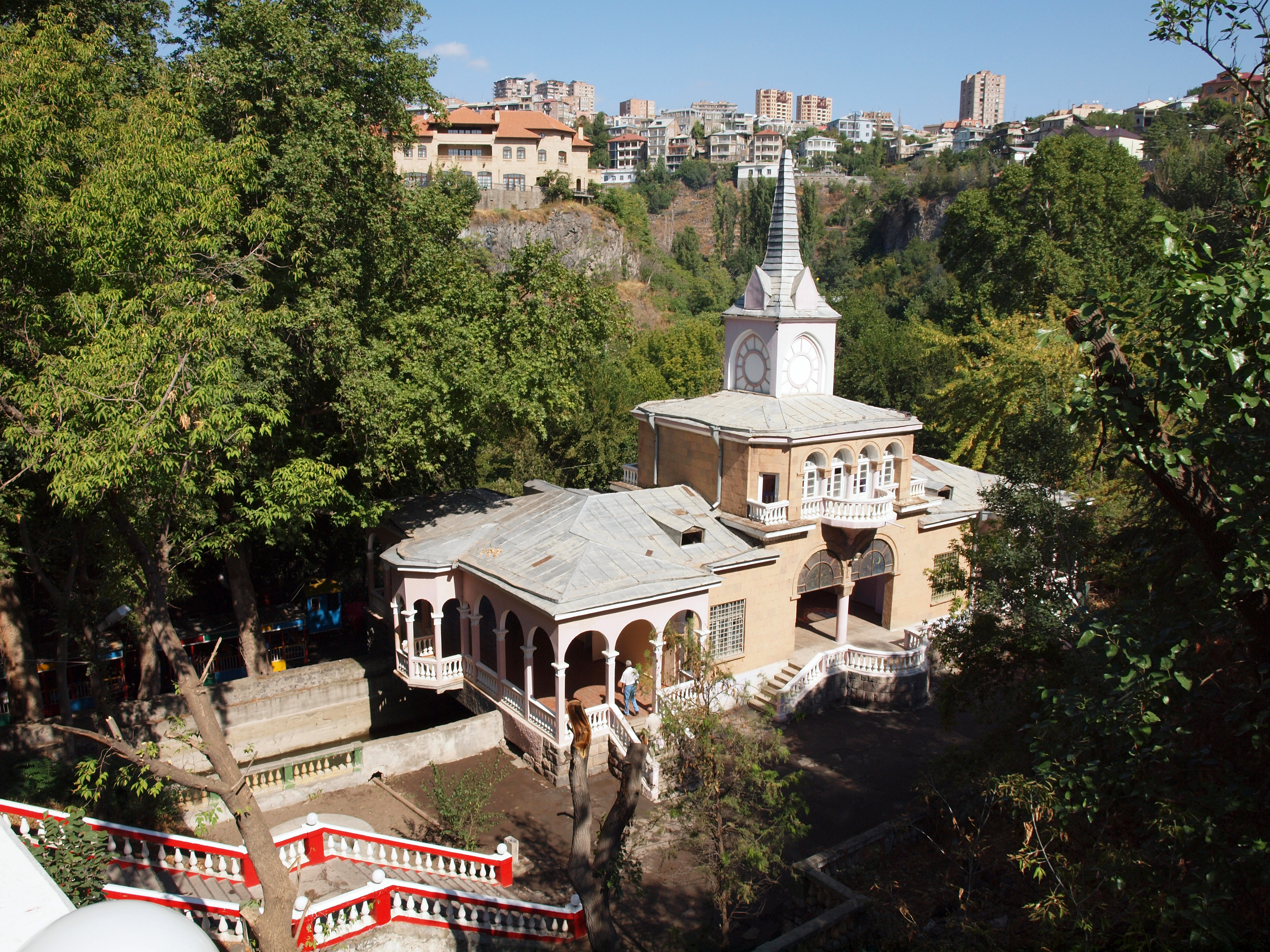 Children's railway in Yerevan, Hrazdan gorge